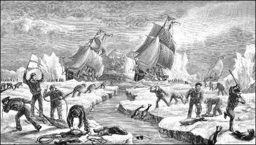 Seal hunting in Newfoundland, Canada, around 1883